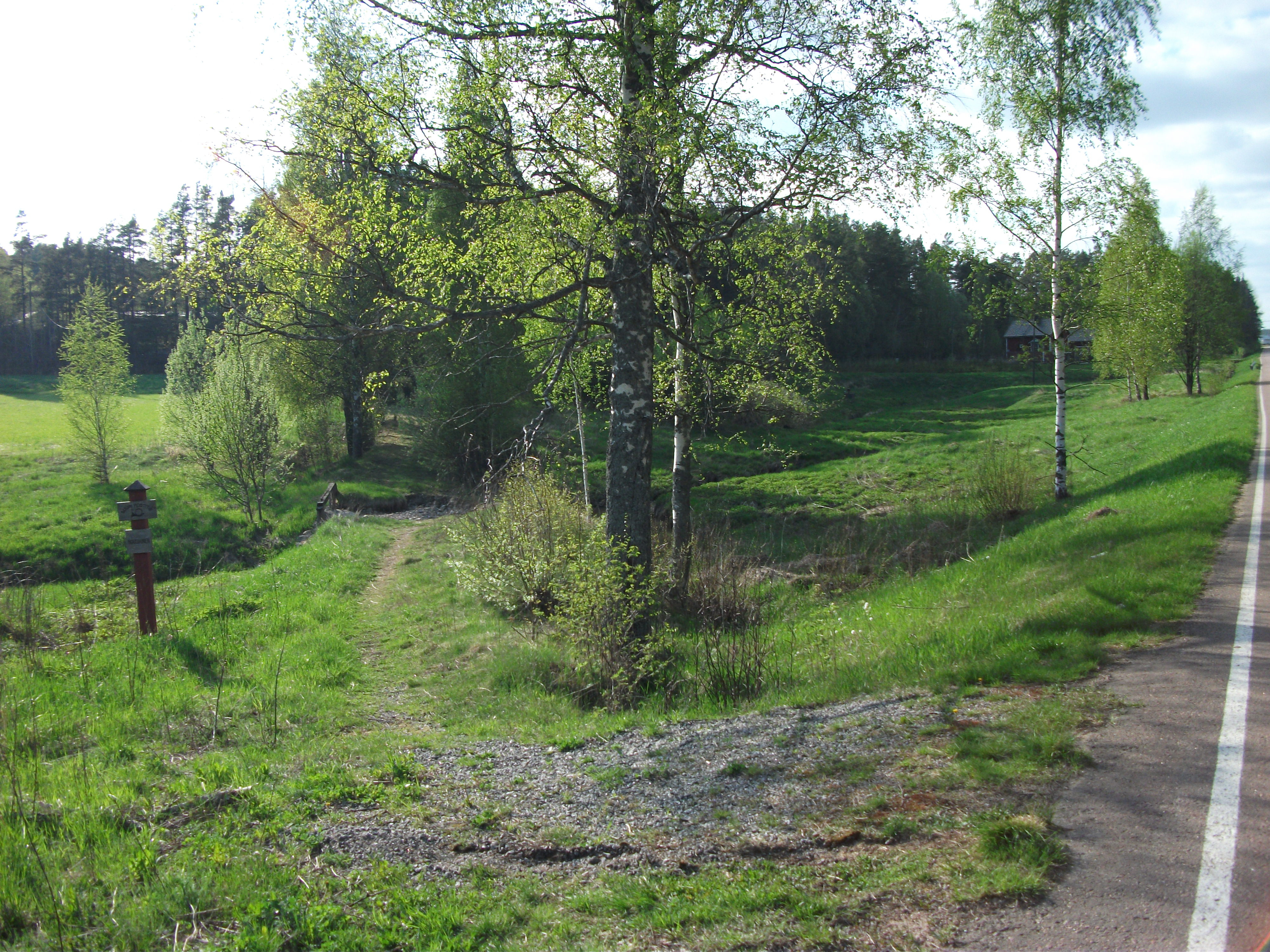 The Great Mail Road between Turku and Stockholm at Nousiainen, Finland.